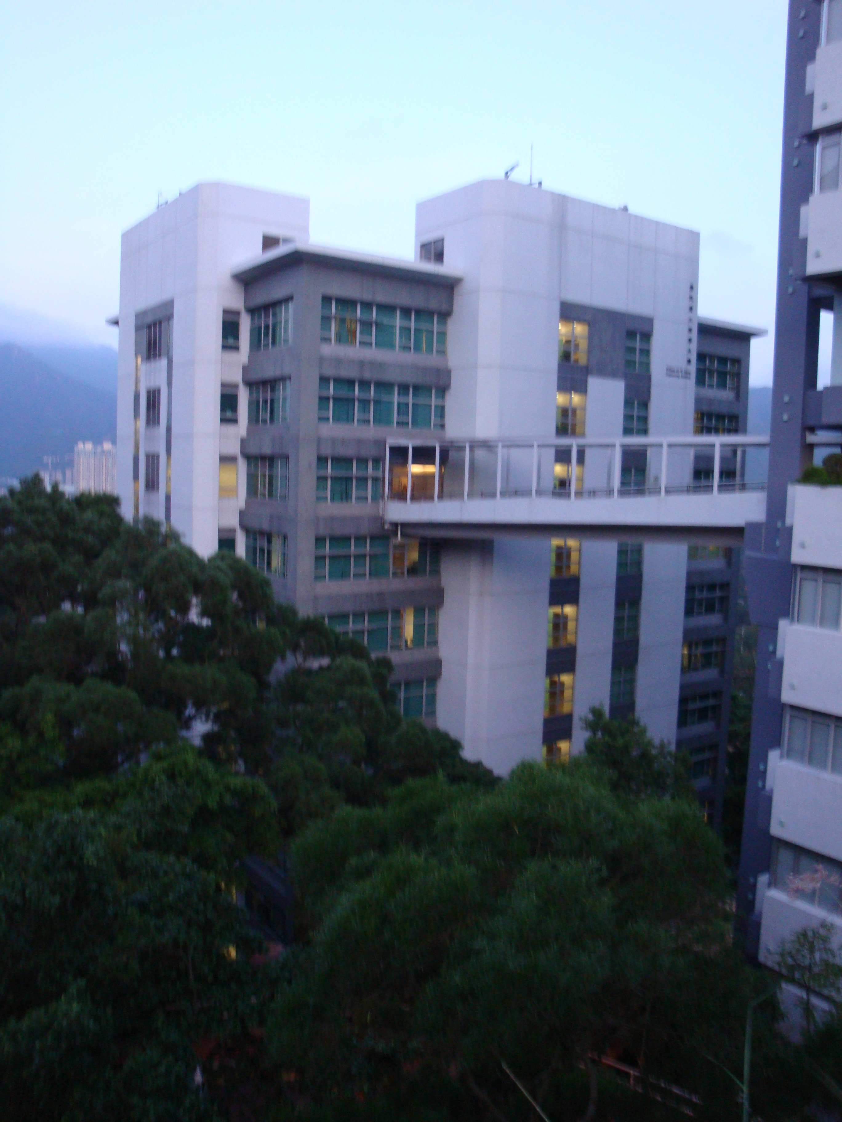 CUHK ERB